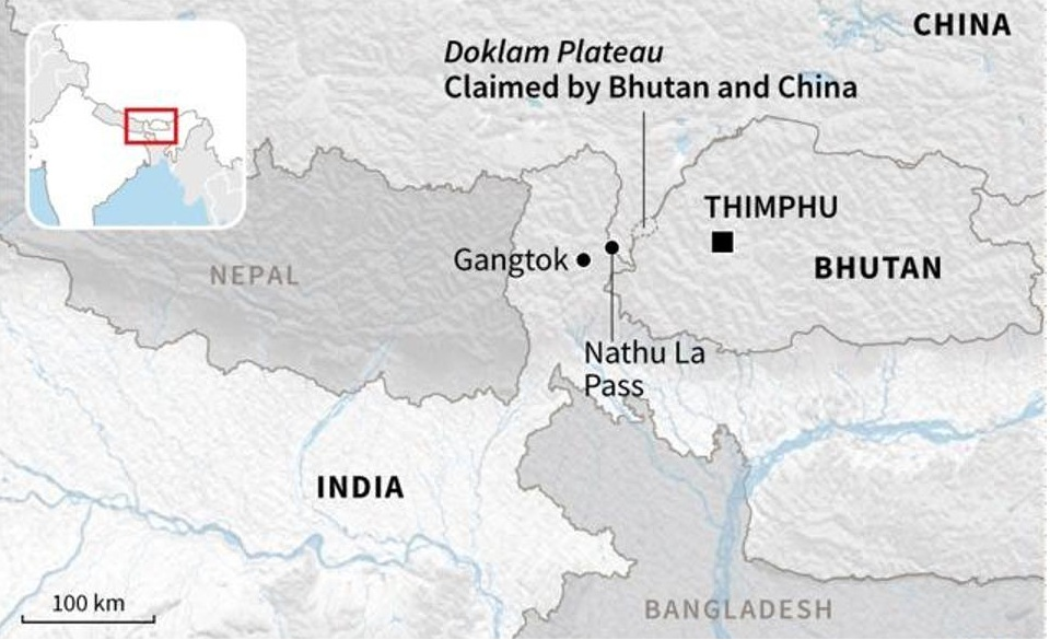 Tensions-between-india-and-china doklam